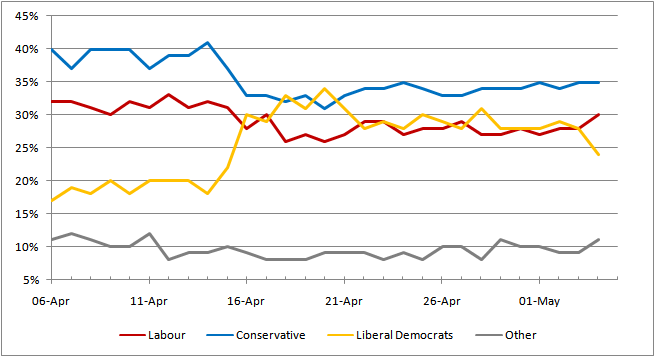 Graph of YouGov Polling data for the 2010 UK General Election from 6 April on.